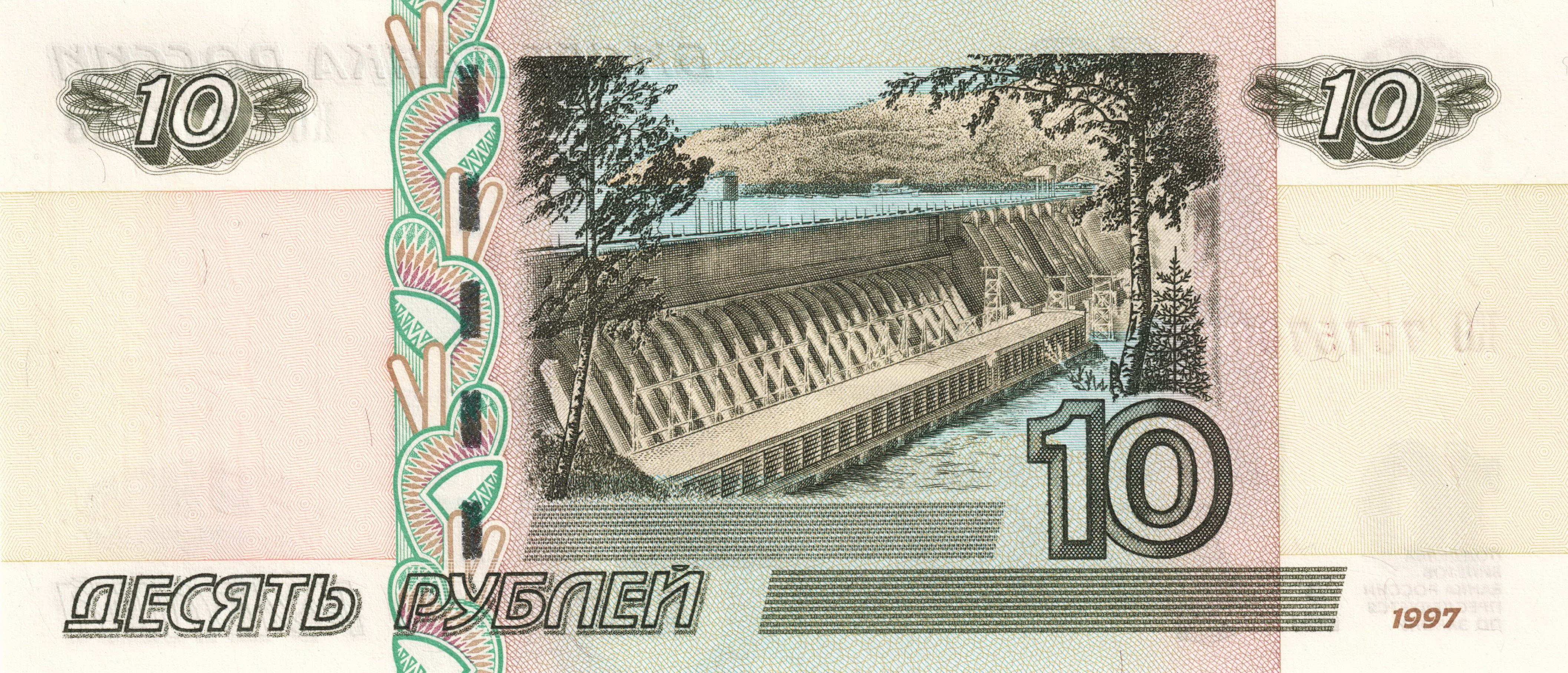 Russian banknote. 10 rubles. Version of 1997 year, 2004 mod. Back